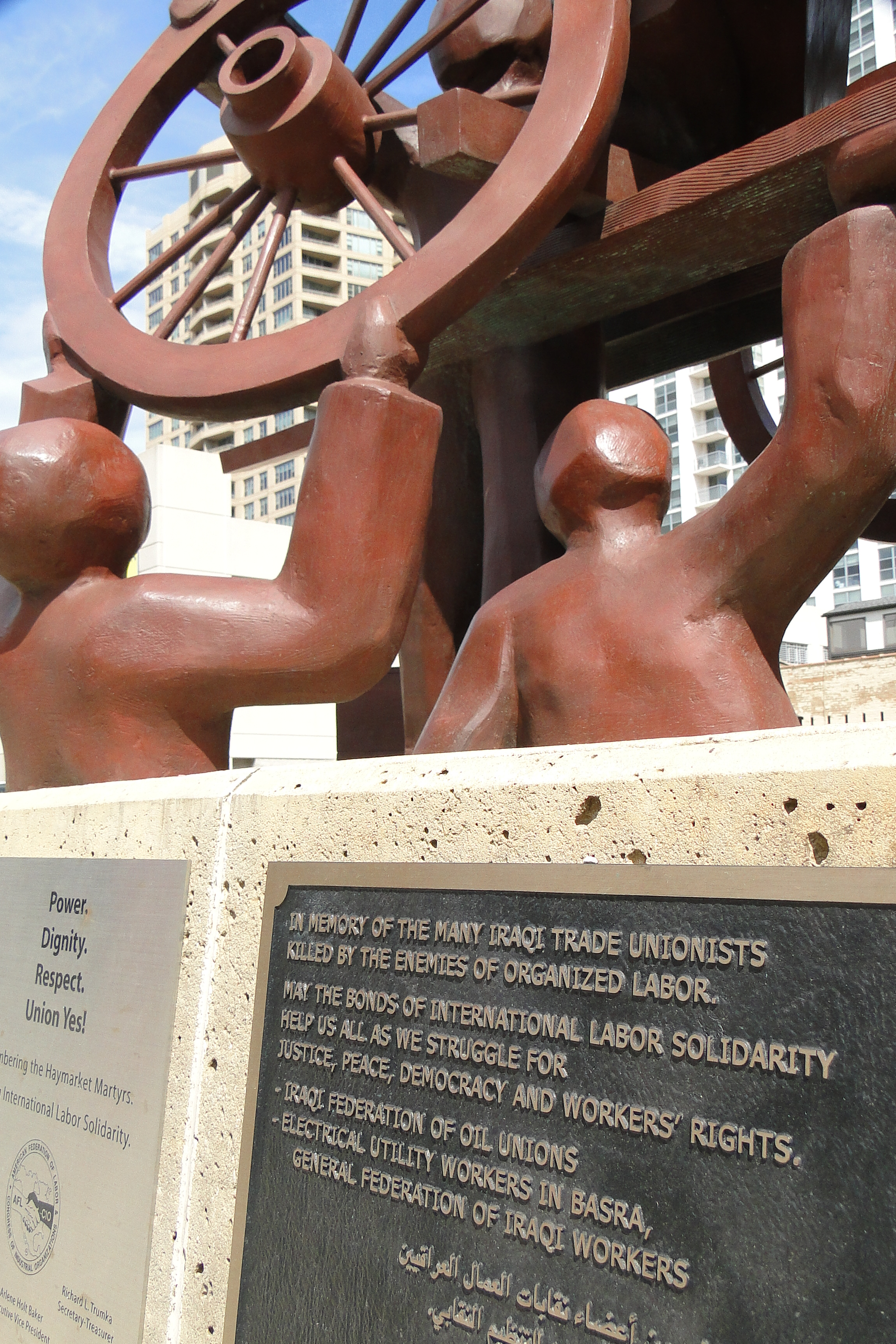 Monument to 1886 Events in Haymarket Square - With Plaque from Iraqi Trade Unionists - Chicago - Illinois - USA